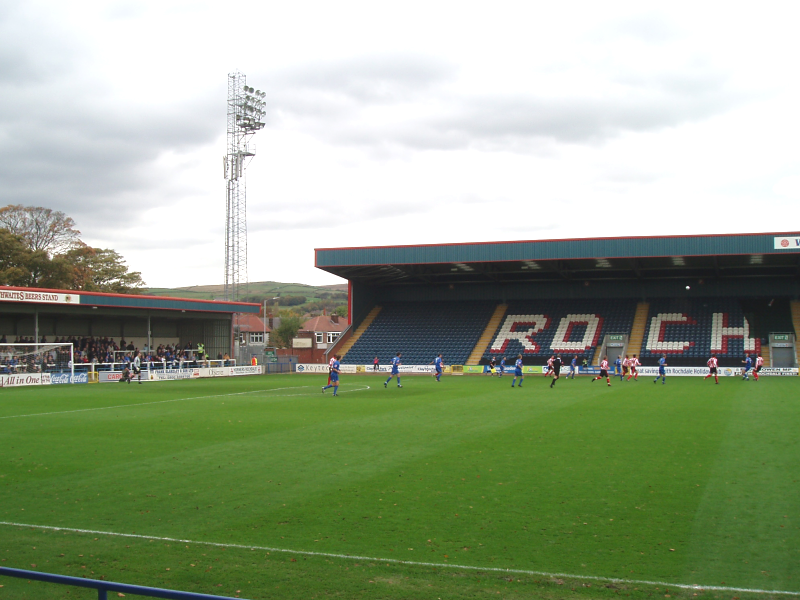 Self-Made photo of the Westrose Leisure and Twaites Beer Stand (from the Main Stand).